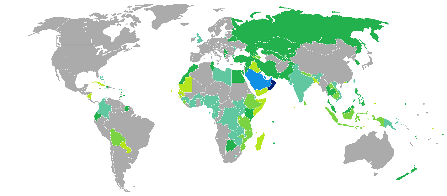 Visa requirements for Omani citizens Oman Freedom of movement Visa free access Visa on arrival eVisa Visa available both on arrival or online Visa required